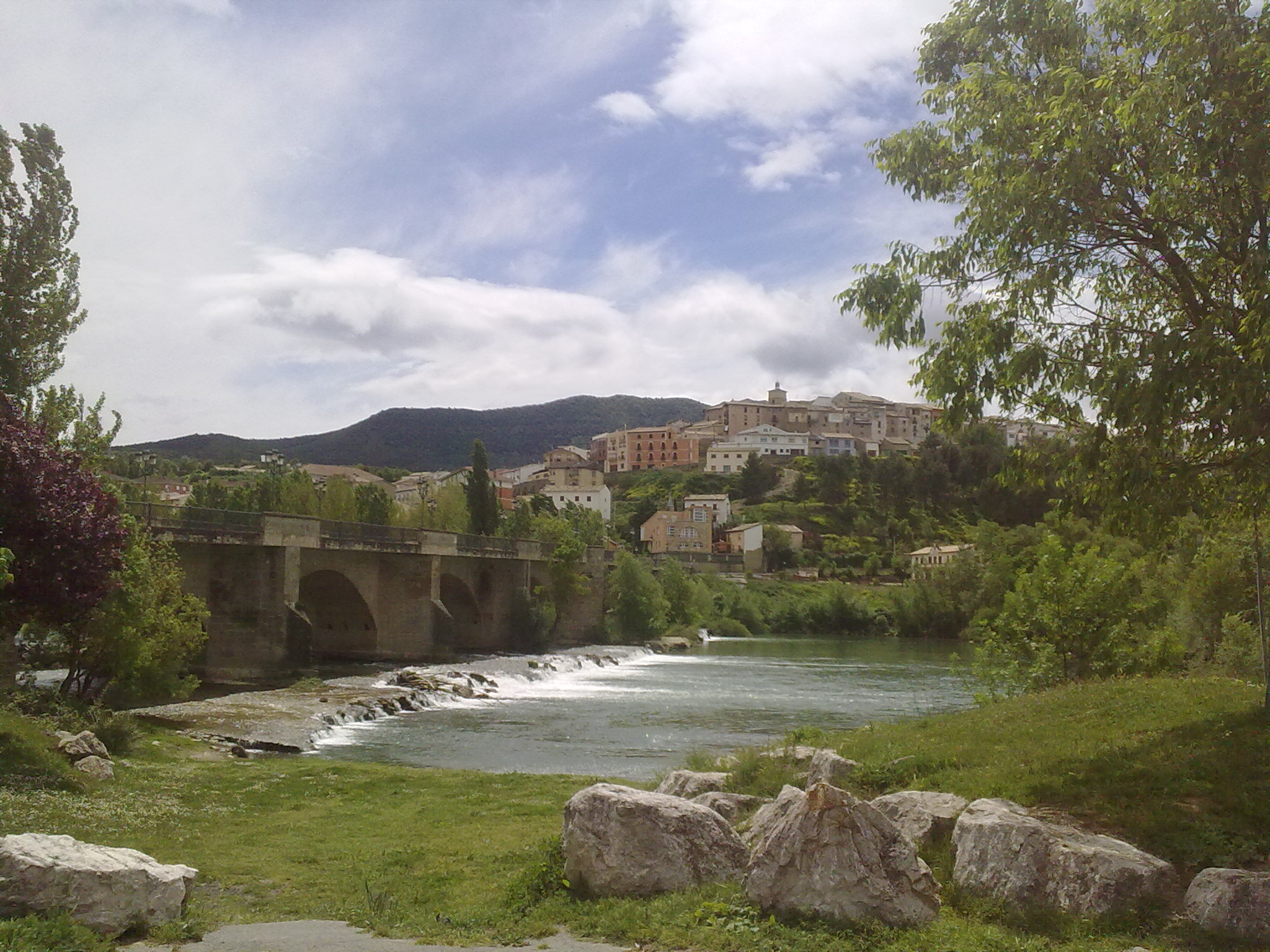 Town of Kaseda and the Aragon river.